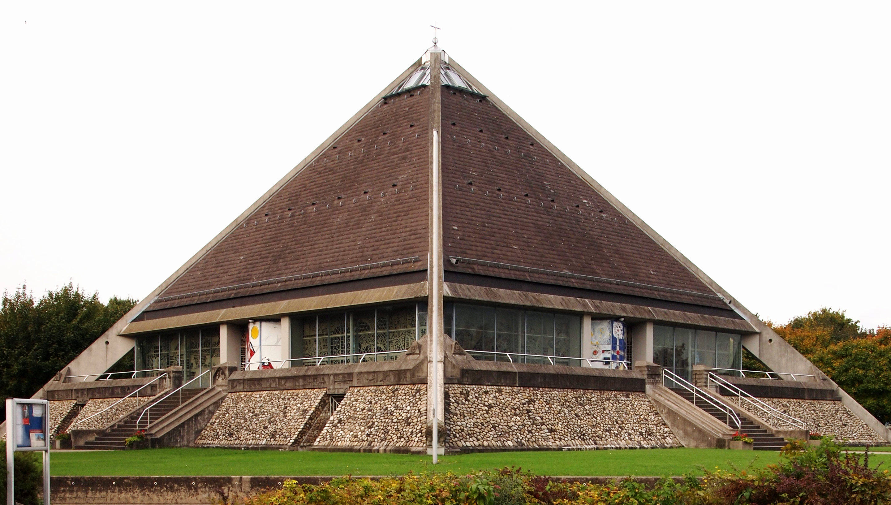 Road church Baden-Baden